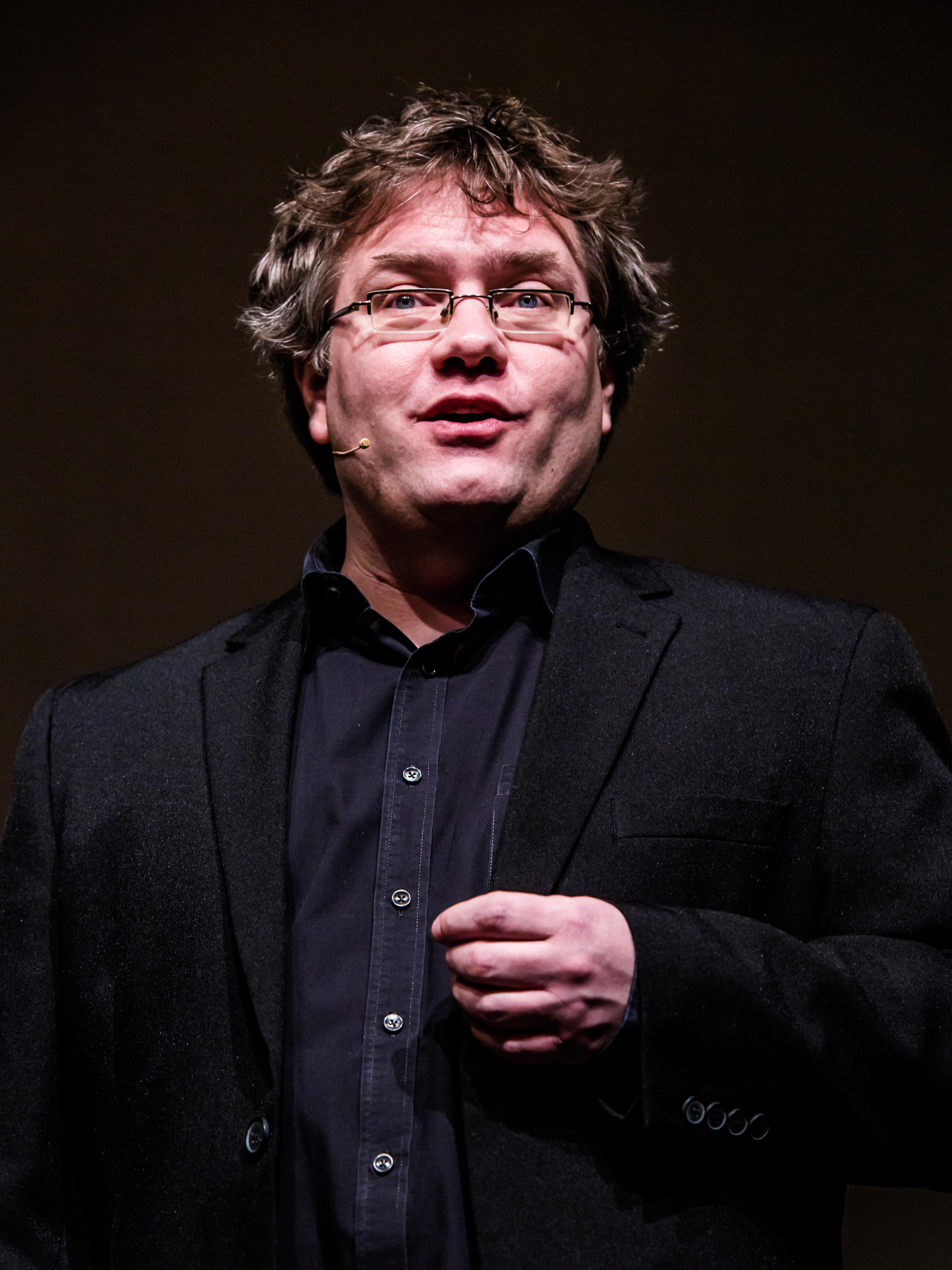 German kabarett artist Matthias Reuter at the Internationale Kulturbörse Freiburg 2018